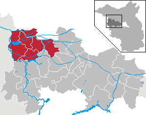 Amt Rhinow in Brandenburg (Country) - District Havelland